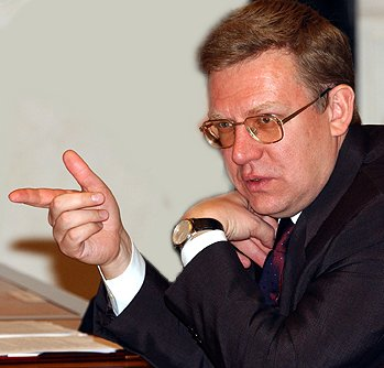 Alexei Kudrin, a Russian politician.